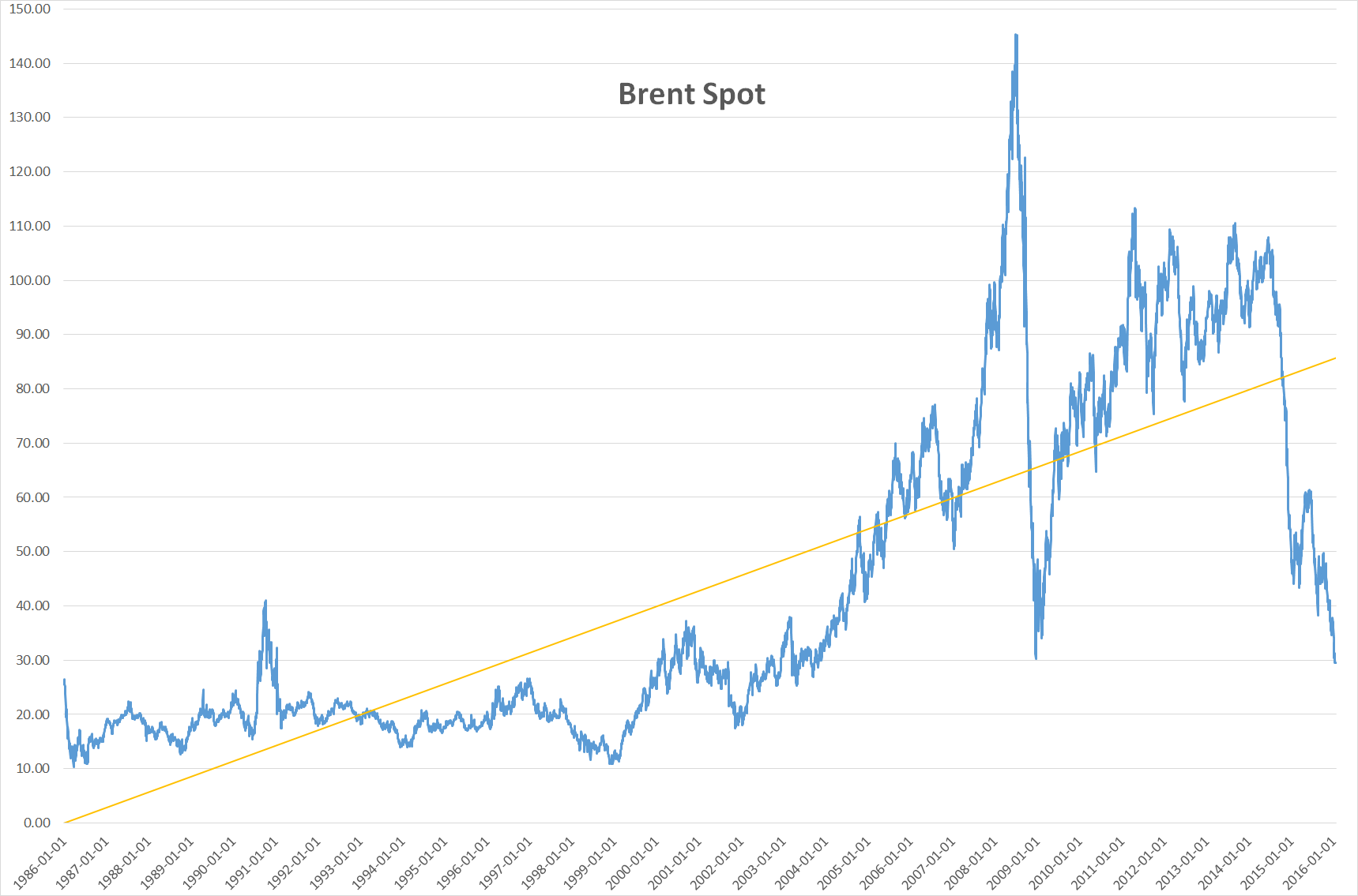 Brent Spot